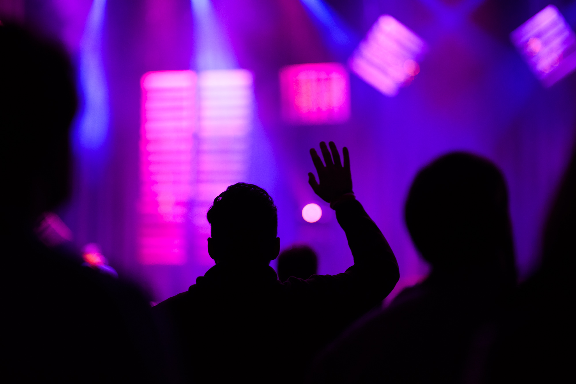 Service at Green Acres Resonate